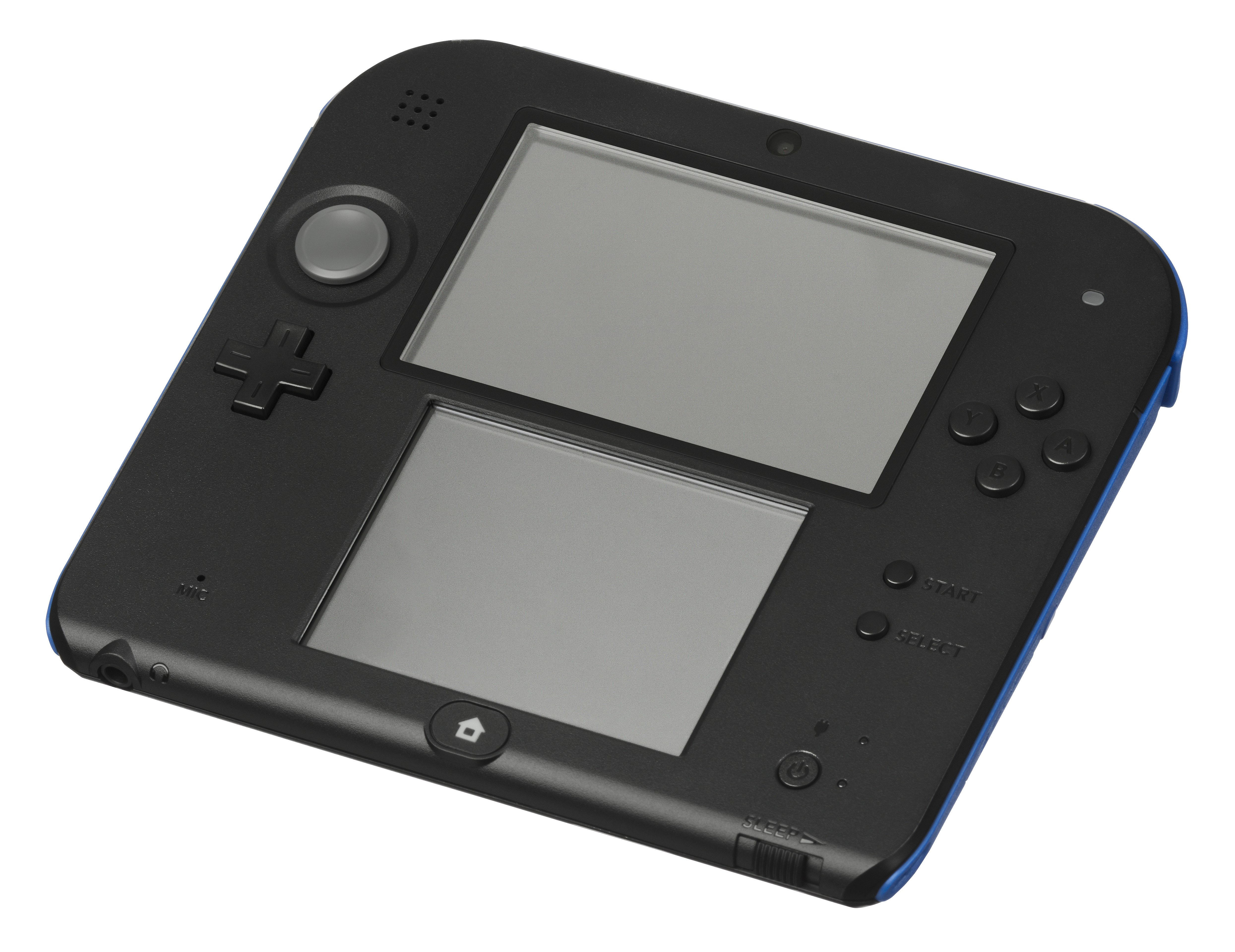 The Nintendo 2DS handheld gaming console. The 2DS is the 3rd hardware iteration of the Nintendo 3DS, after the 3DS and the 3DS XL, and was released in late 2013. It is notable for having a radically different form factor than the rest of the 3DS and DS line and omitting 3D capability. Instead of a clamshell design, the 2DS is a slate with one large LCD screen that is covered with plastic to mimic the two screens of the 3DS. Like the 3DS XL, it launched in either a blue or red color. The reduction in capabilities (mono sound, lack of 3D) positions the 2DS as the budget model of the 3DS lineup and it retails for $129.99, $40 less than the 3DS and $70 less than the 3DS XL. It is also marketed to young children, as Nintendo discourages children younger than 7 from using the 3D feature for eye health concerns.